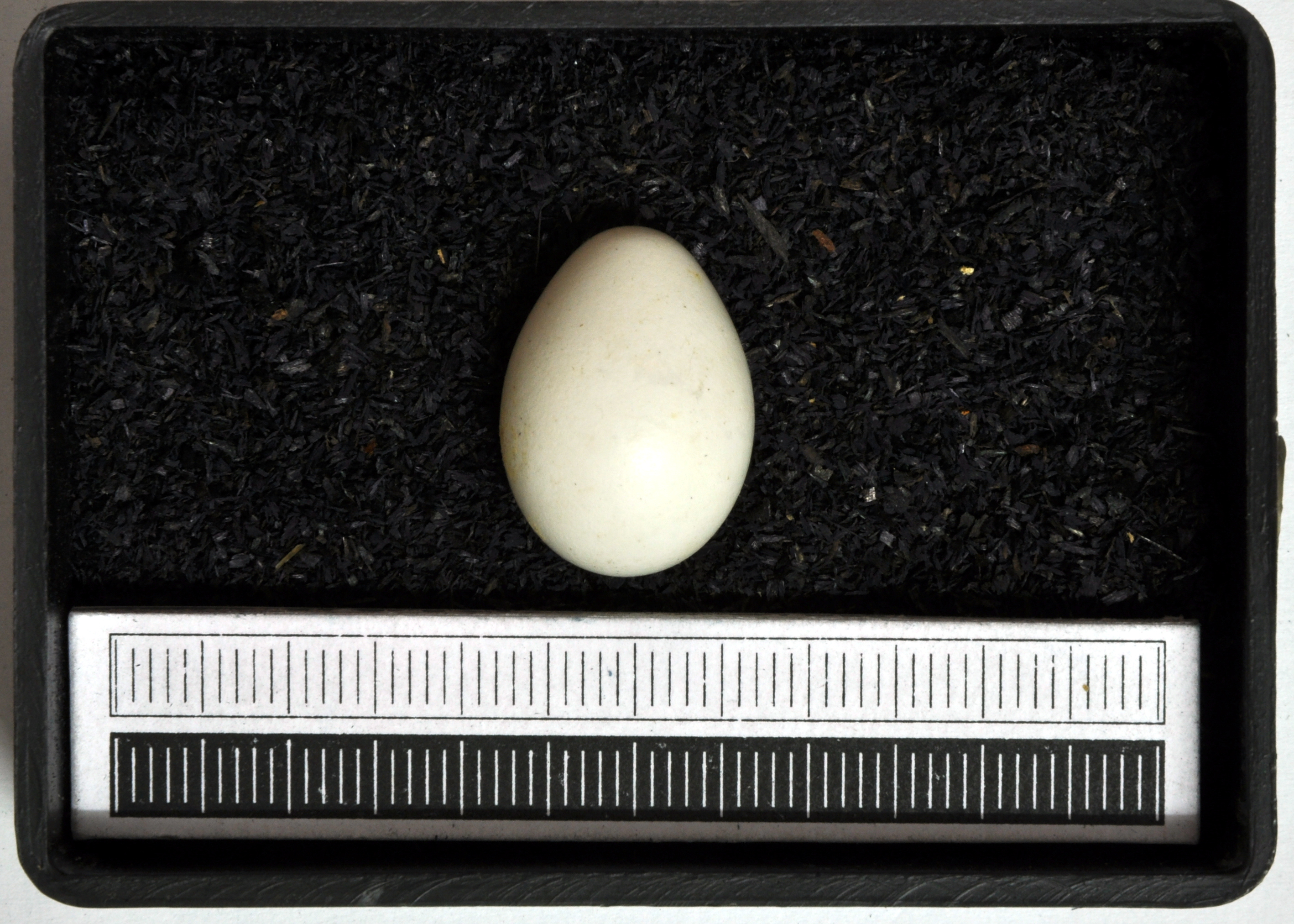 Black redstart Phoenicurus ochruros , egg, Coll. Museum Wiesbaden, leg. W. Abelmann